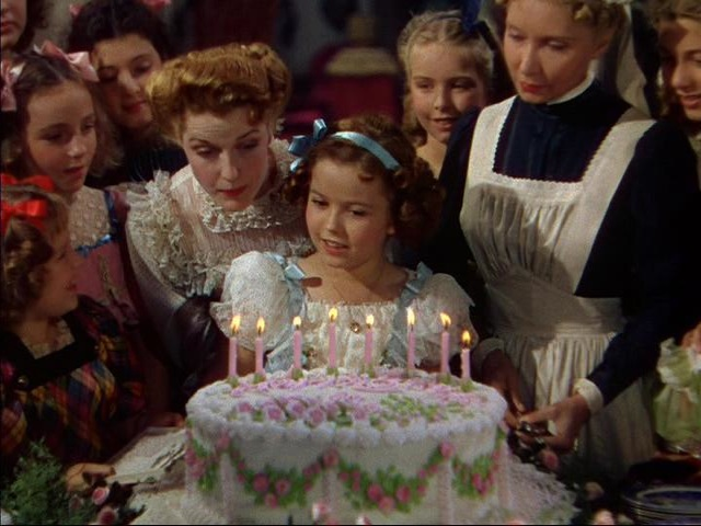 Screenshot from a public domain film The Little Princess (1939) starring Shirley Temple and Richard Greene